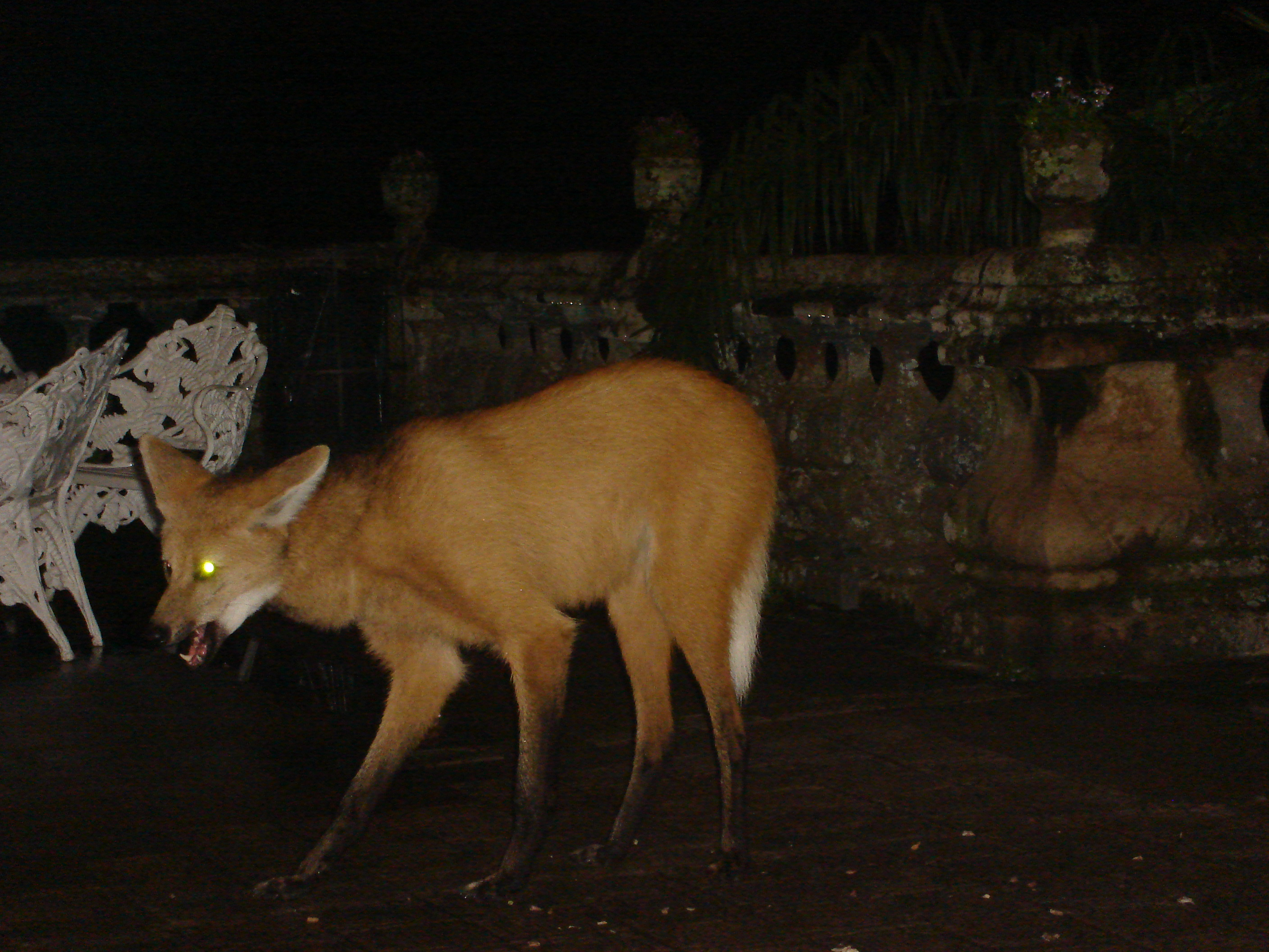 Maned Wolf